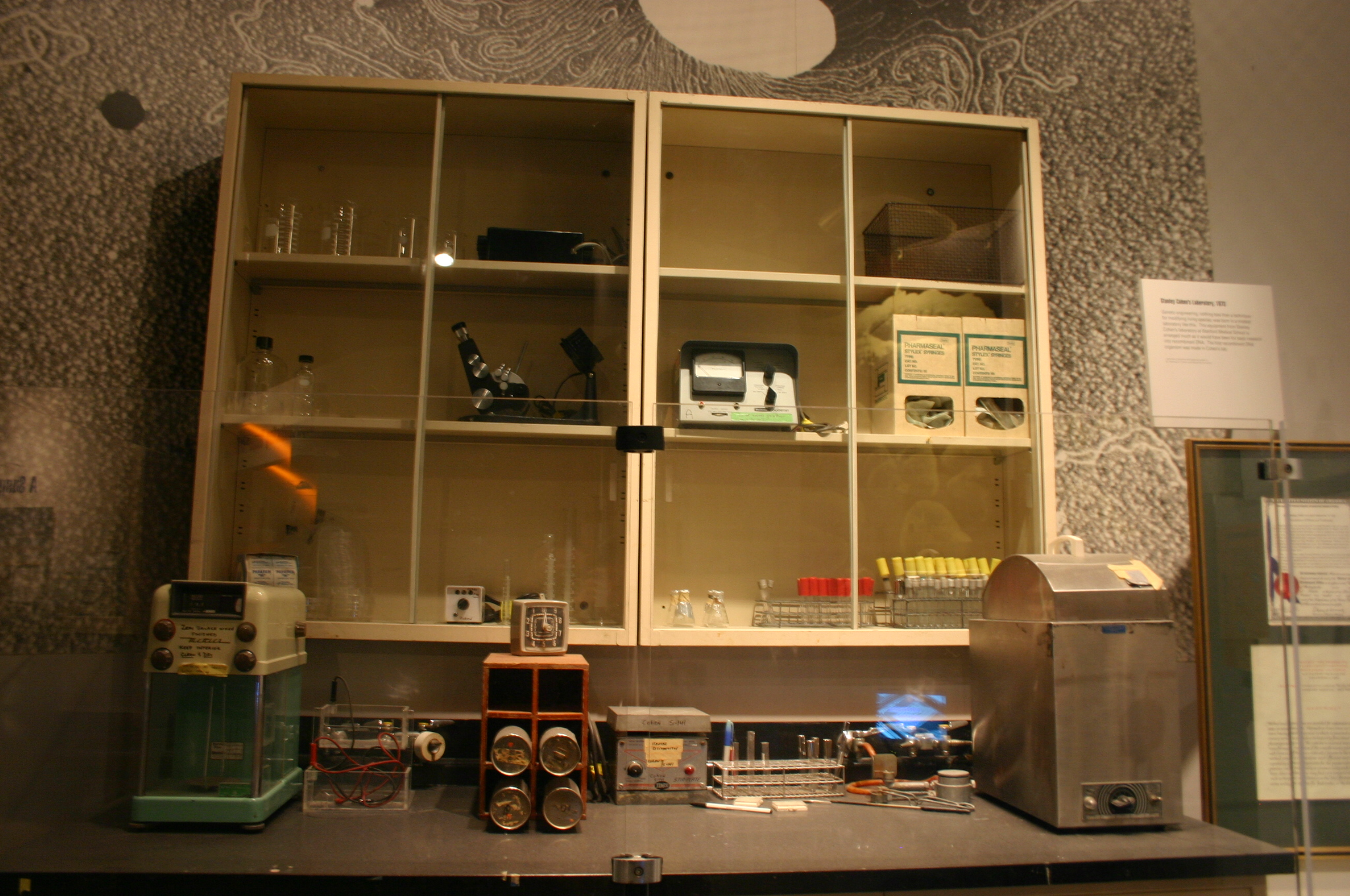 Stanley Norman Cohen's Genetic Engineering Laboratory, 1973 - National American History Museum's Science in American Life exhibit.